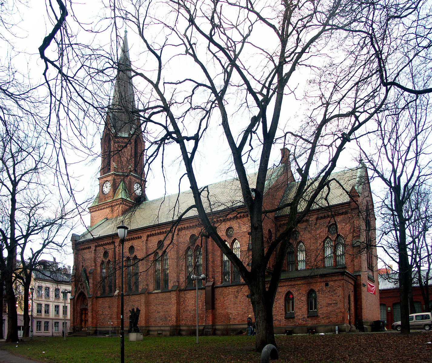 Kulturkirken Jakob is a church in Oslo, now used as a scene for theater, music and art exhibitions.